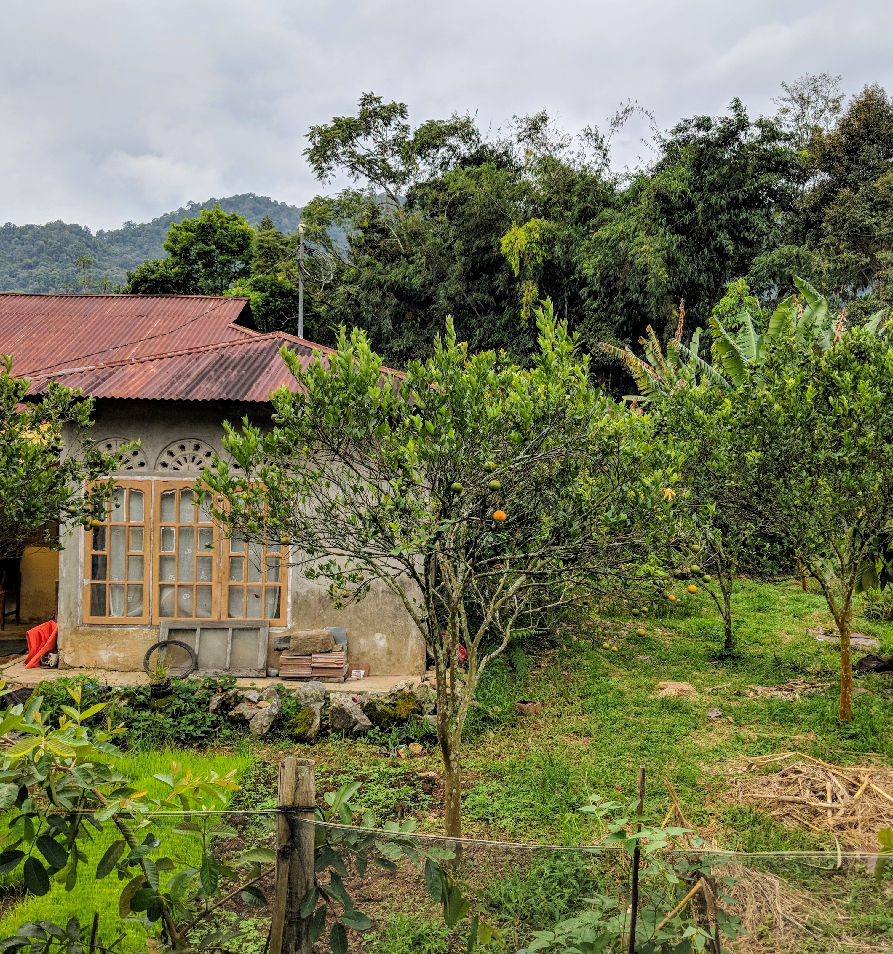 West Sumatran brick house and home garden (pekarangan) with orange